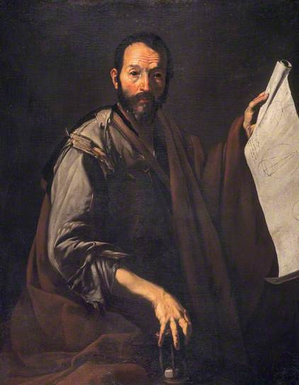 Pietro Novelli. Philosopher. (c) National Galleries of Scotland; Supplied by The Public Catalogue Foundation